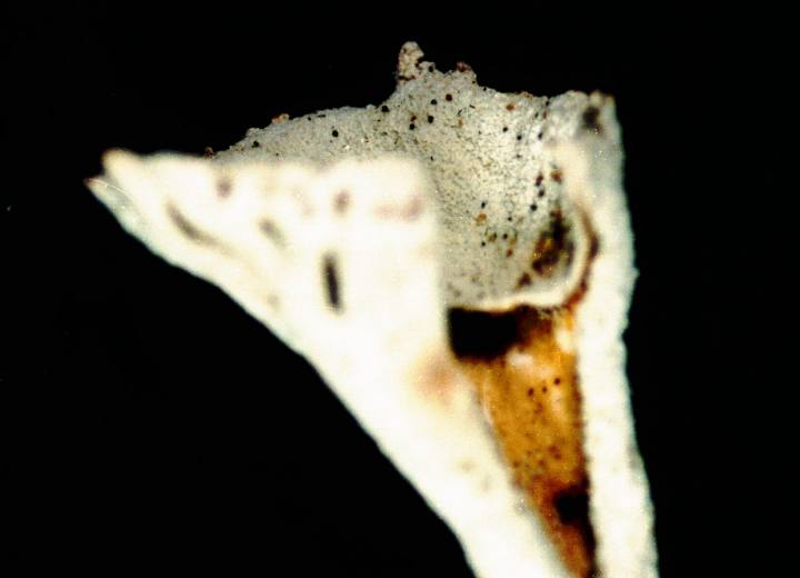 Cladonia digitata (L.) Hoffm., 1796 (photograph of a herbarium specimen taken through a dissecting microscope (x12) showing a torn cup) Growing in moss on soil in Cladina barren, 2.2 miles W of the University of Michigan Biological Station, Cheboygan County, Michigan, USA; collected and identified by Richard E. Riefner (No. 81-219, 23 Jun 1981); specimen is now in the Lichen Herbarium of the New York Botanical Garden.